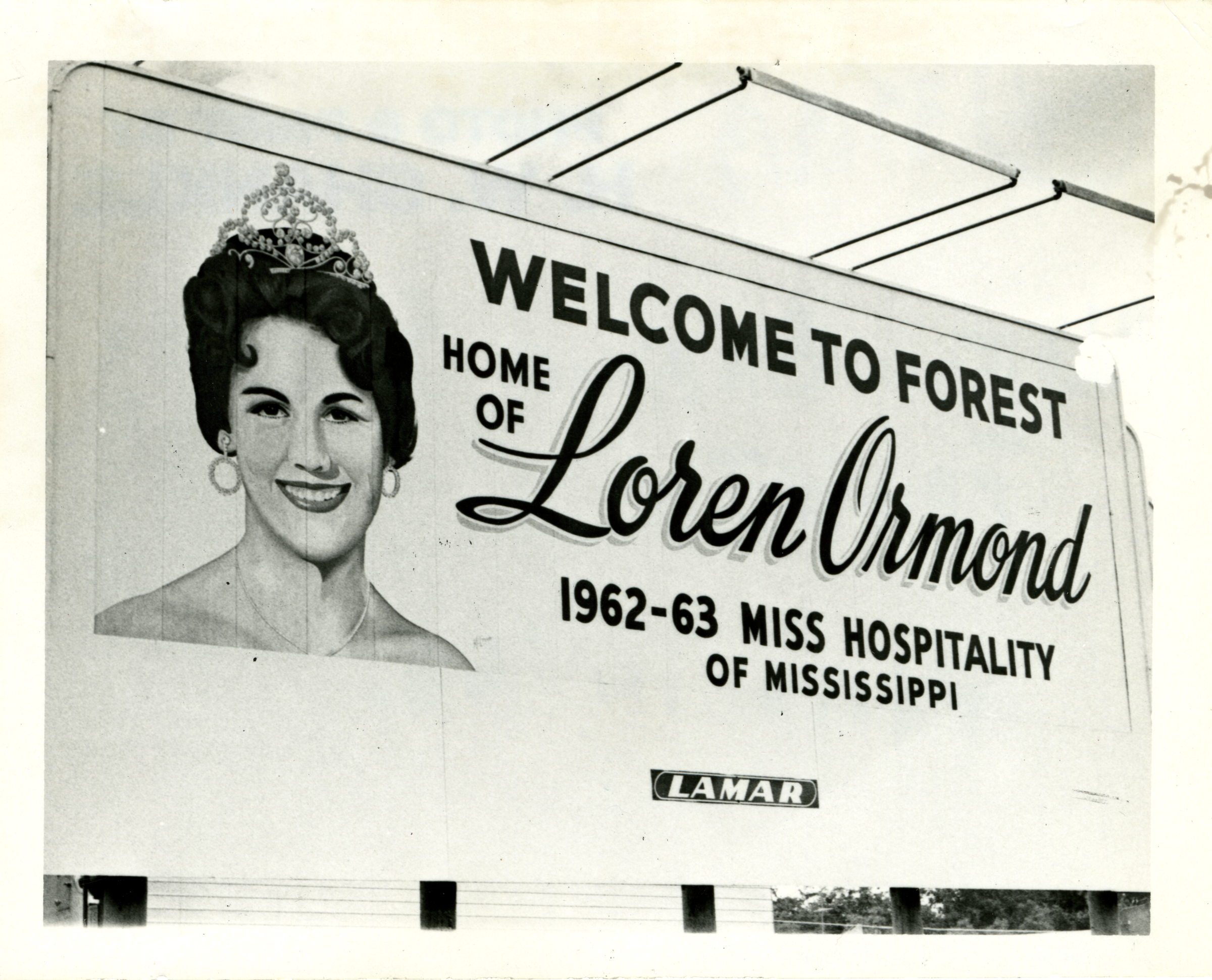 Collection: Shankle, Hugh W., Collection Call Number: PI/COL/1981.0066 System ID: 105616. Link to the catalog From Loren Ormond. View shows billboard with portrait photo of Loren Ormond. Sign reads, "Welcome to Forest, Home of Loren Ormond, 1962-63 Miss Hospitality of Mississippi. Please see our profile page for information on ordering. Scanned as tiff in 2011/05/25 by MDAH. Credit: Courtesy of the Mississippi Department of Archives and History